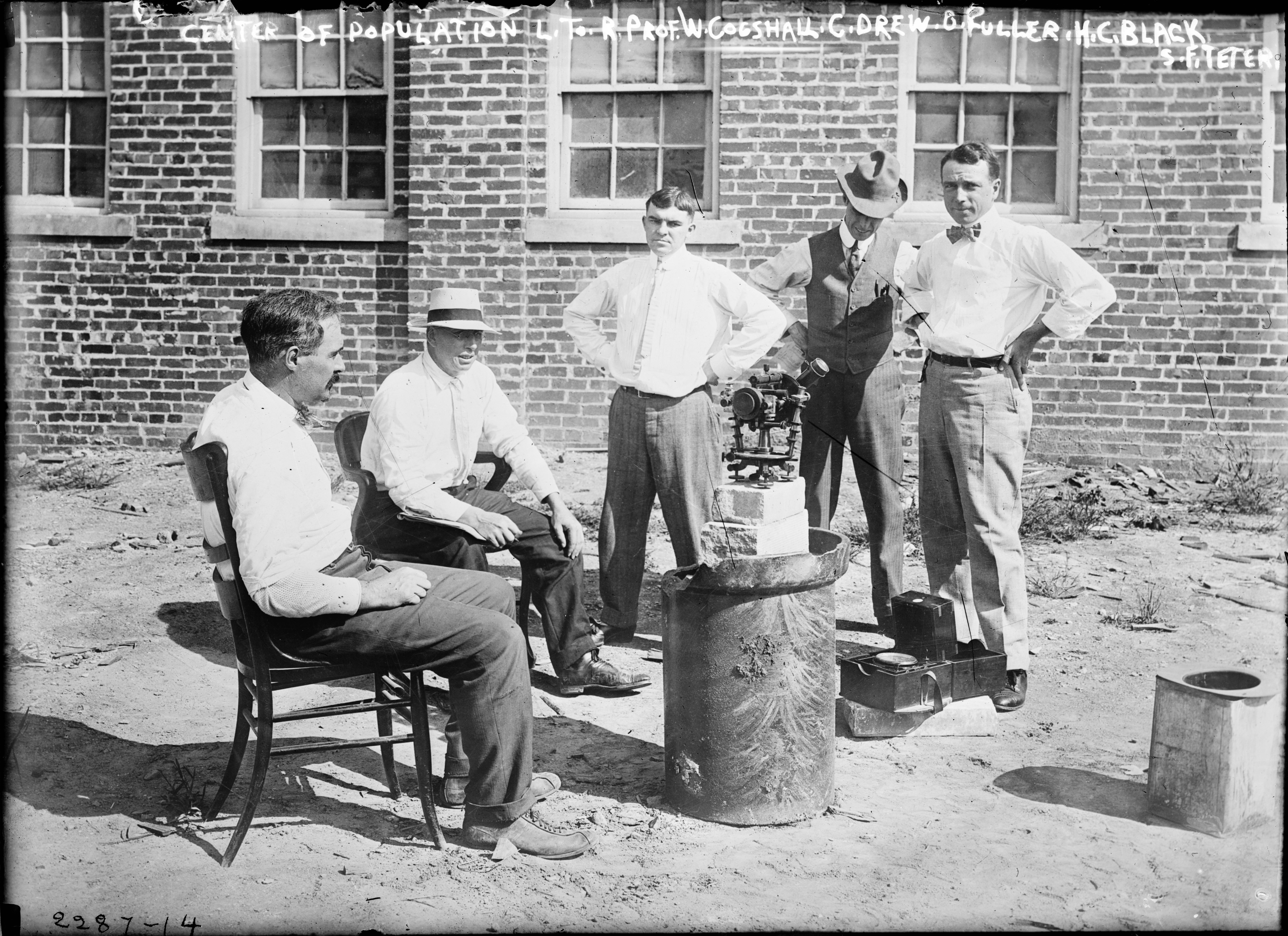 Bain News Service,, publisher. Mean center of United States population [between ca. 1911 and ca. 1915] 1 negative : glass ; 5 x 7 in. or smaller. Notes: Title from data provided by the Bain News Service on the negative. Caption continues: l. to r. Prof. W. Cogswell, C. Drew, B. Fuller, H.C. Black and S.F. Teter. Photo shows Professor Wilbur A. Cogshill of Indiana University, who located the exact center of population of the United States in Bloomington, Indiana. (Source: Flickr Commons Project, 2010 and New York Times, July 22, 1911) Forms part of: George Grantham Bain Collection (Library of Congress). Format: Glass negatives. Repository: Library of Congress, Prints and Photographs Division, Washington, D.C. 20540 USA, General information about the Bain Collection is available at Persistent URL: Call Number: LC-B2- 2287-16